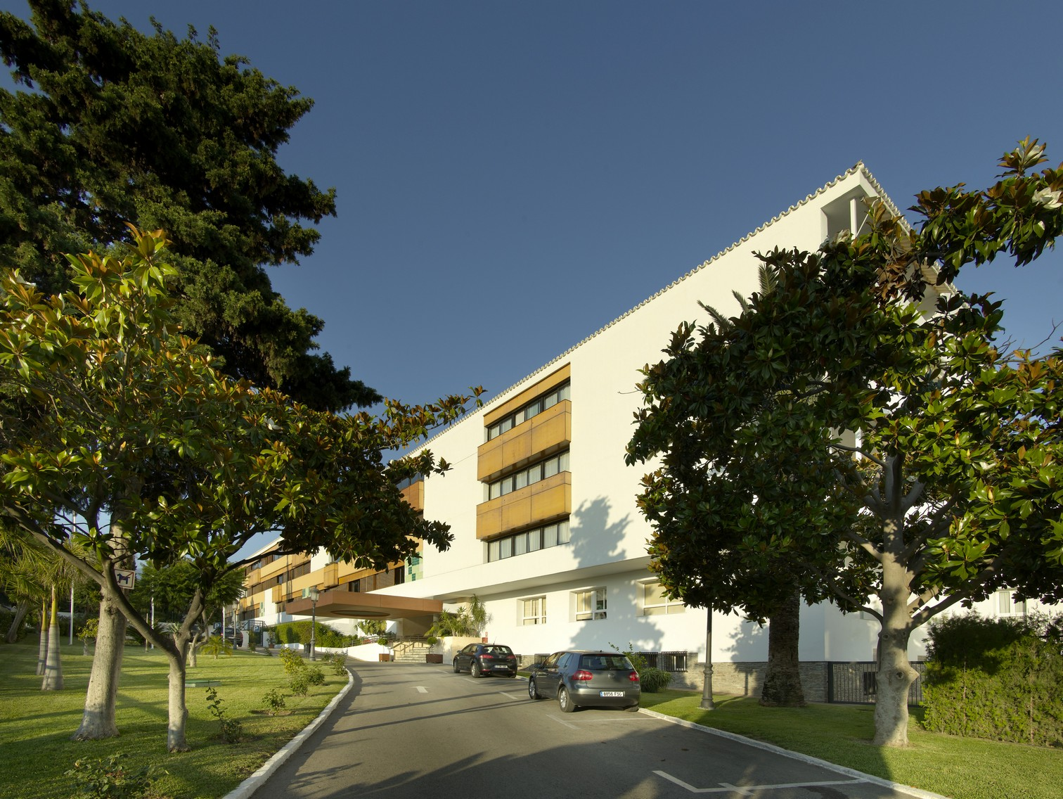 Main entrance